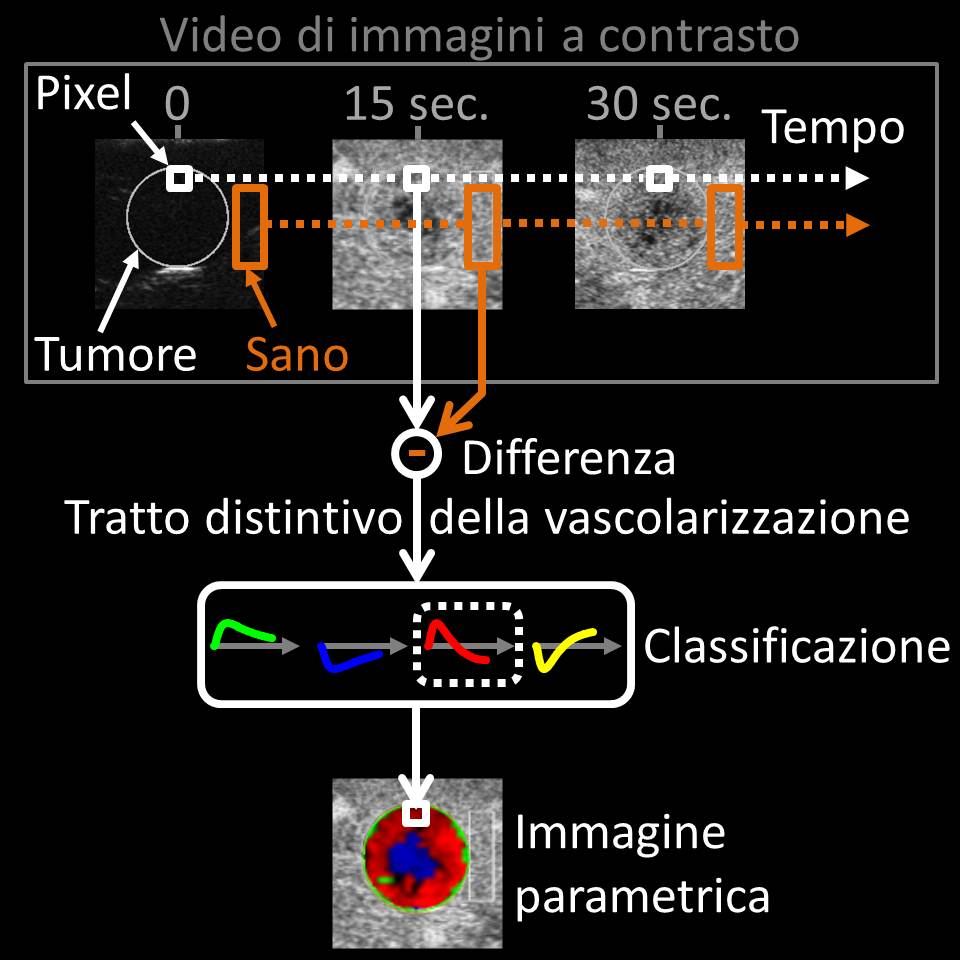 Immagine parametrica dei tratti distintivi della vascolarizzazione a seguito di esame ecografico con mezzo di contrasto (diagramma)